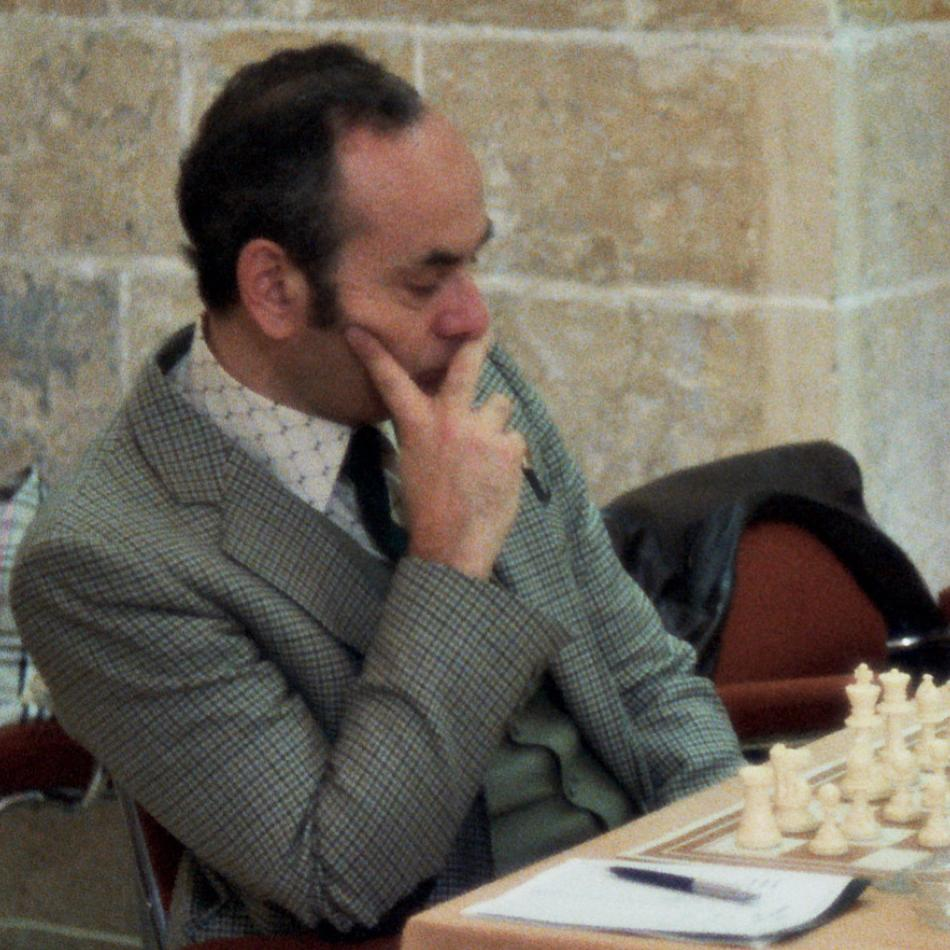 Lajos Portisch at the Chess Olympiad 1980 in Malta, Photographer Gerhard Hund.